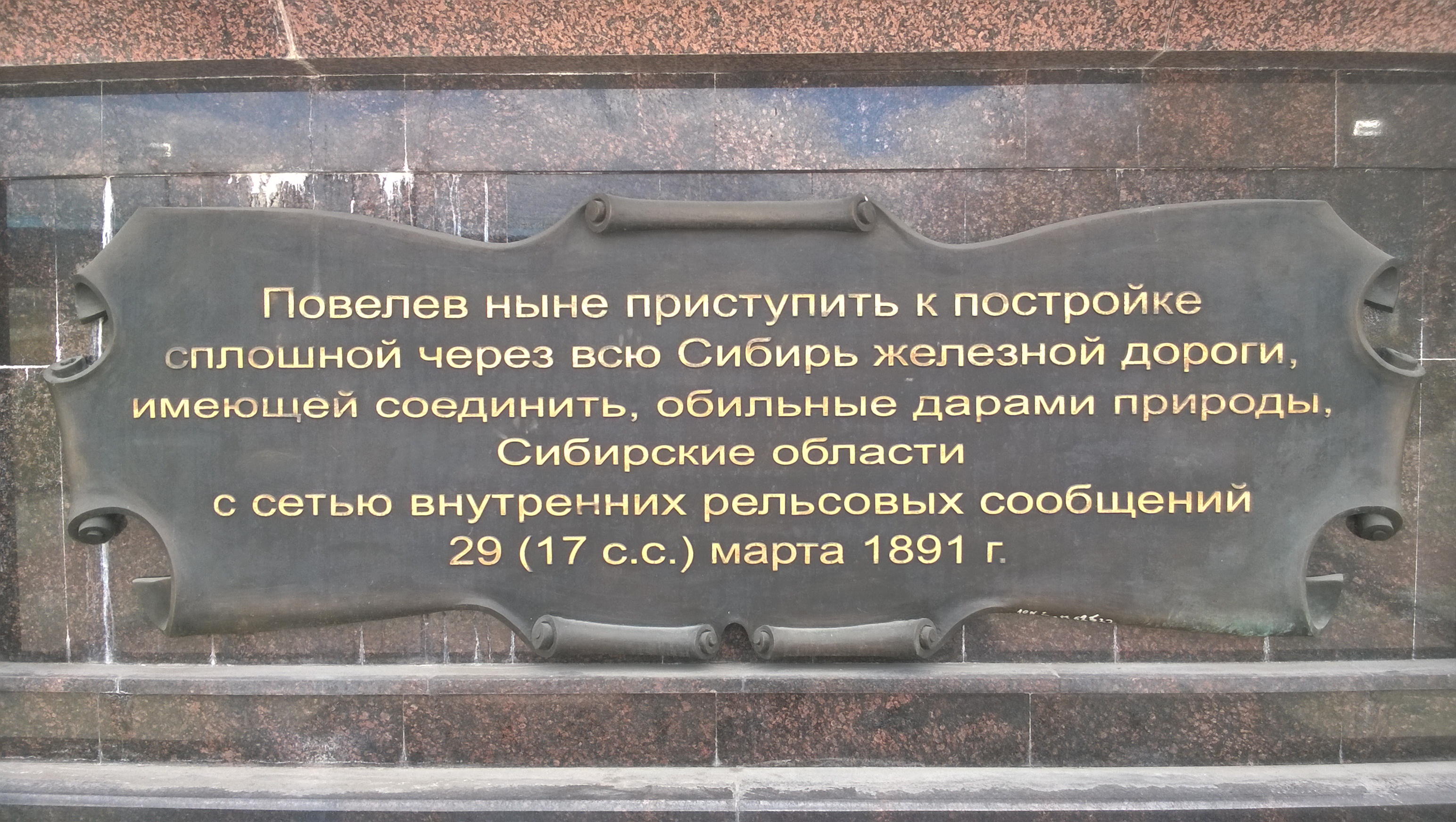 Monument to Alexander III in Novosibirsk.